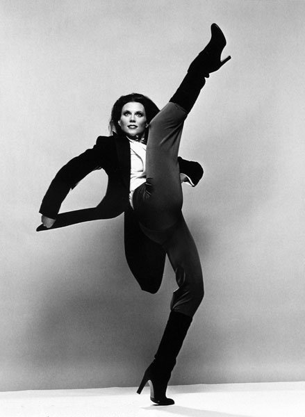 Ann Reinking